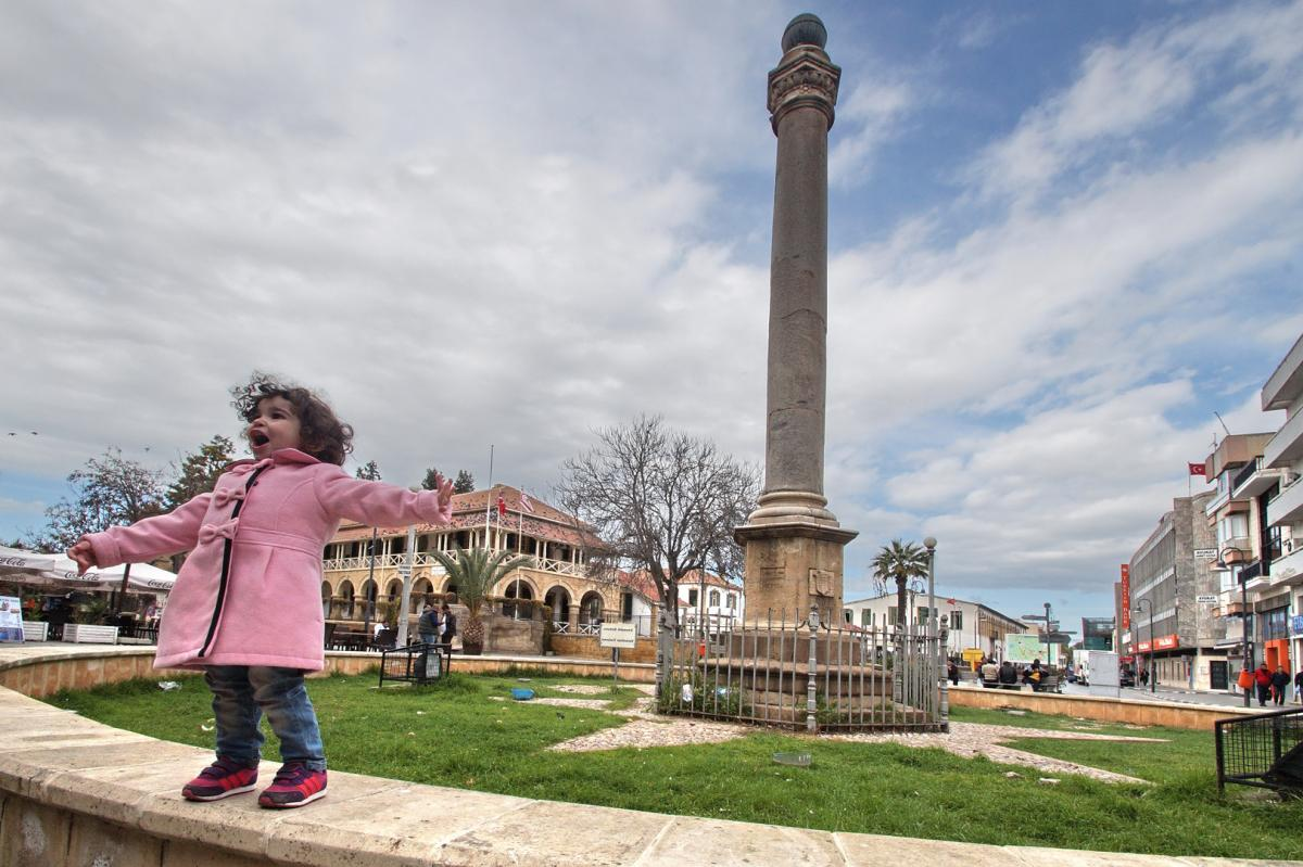 Child in Sarayönü Square, Nicosia